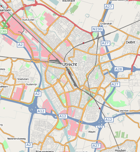 This map of OSM - knooppunt Hoevelaken was created from OpenStreetMap project data, collected by the community. This map may be incomplete, and may contain errors. Don't rely solely on it for navigation.